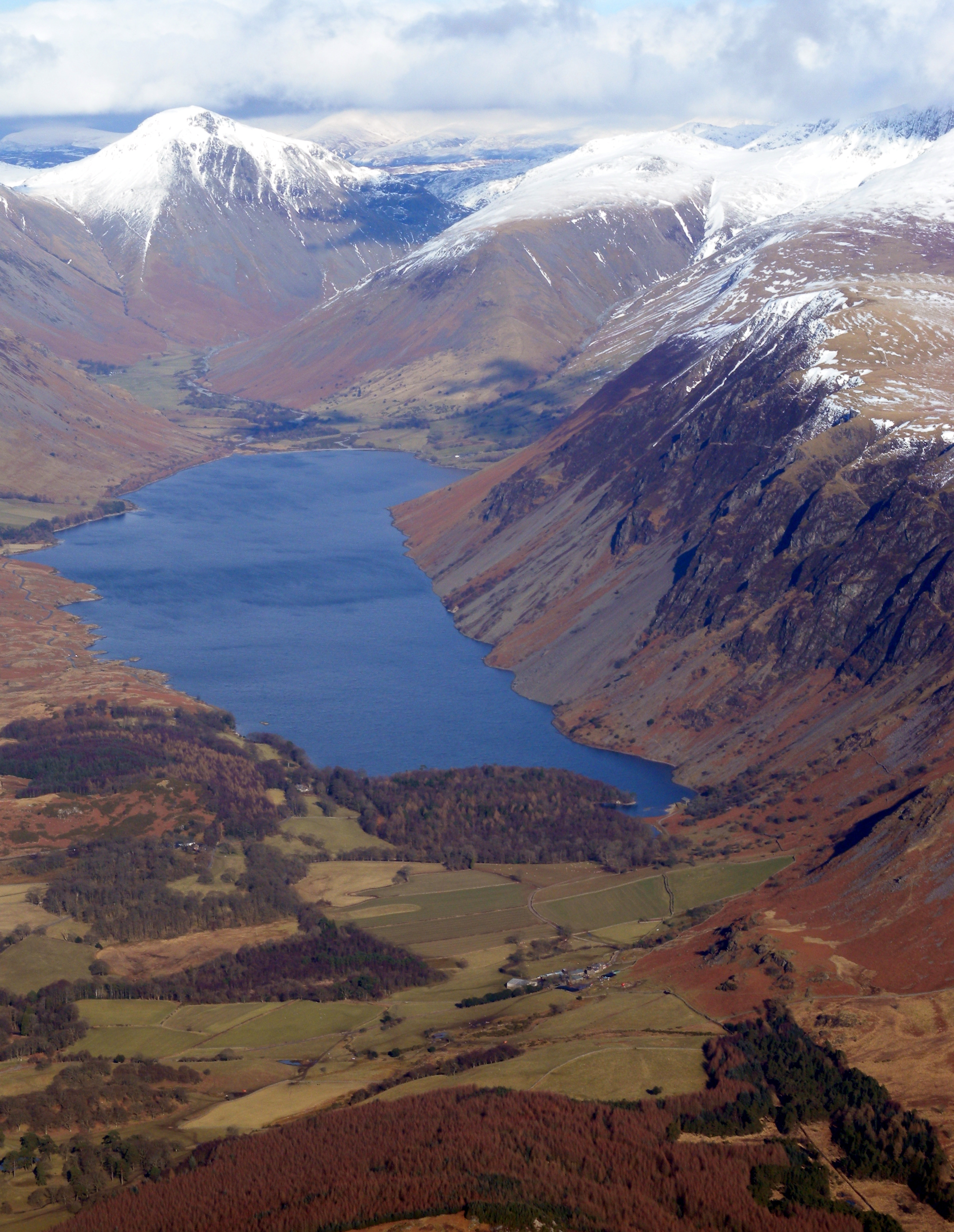 Aerial view of Wast Water in Cumbria, England, UK, looking towards the north-east.